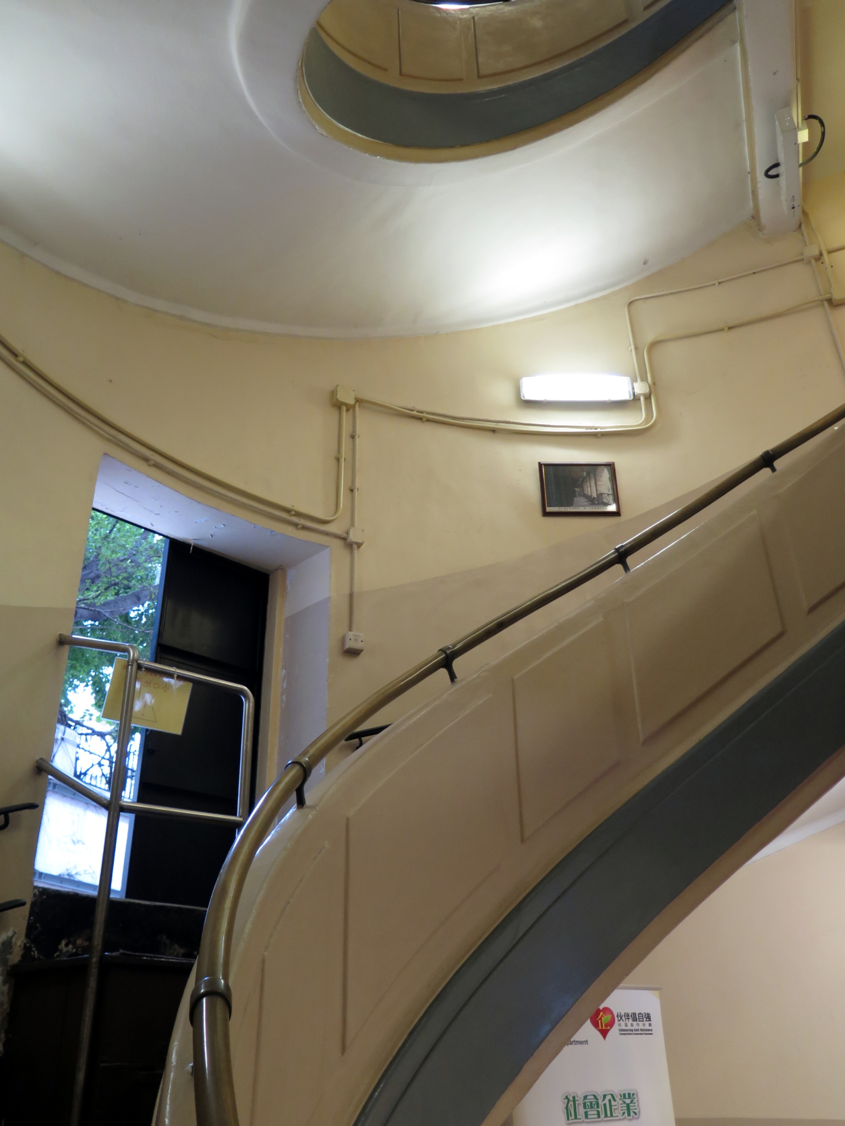 Western District Community Centre stairs